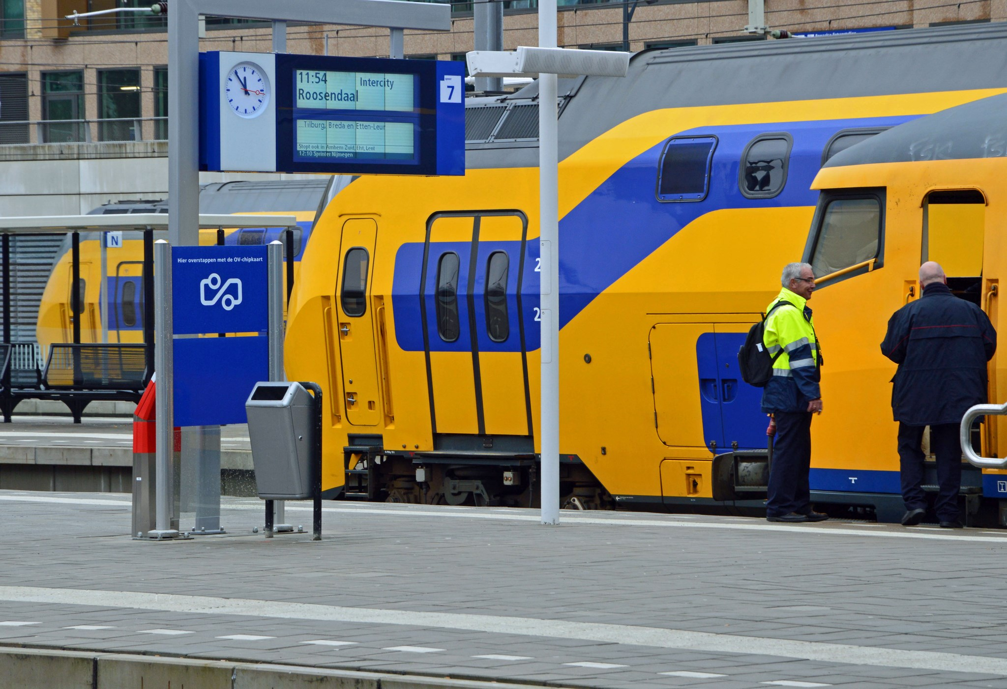 Three in a row for all the places you need to go.